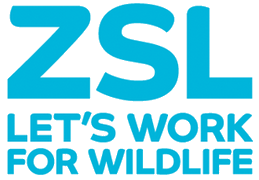 Logo for the Zoological Society of London.